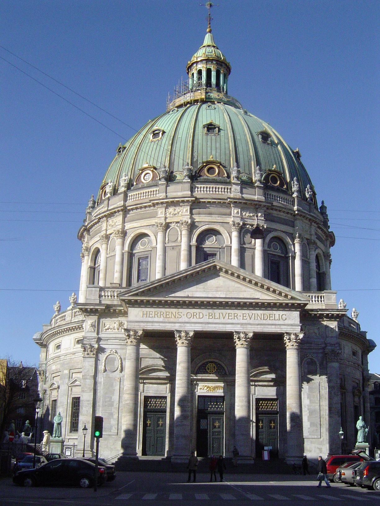 Danemark-Copenhague Marmorkirche